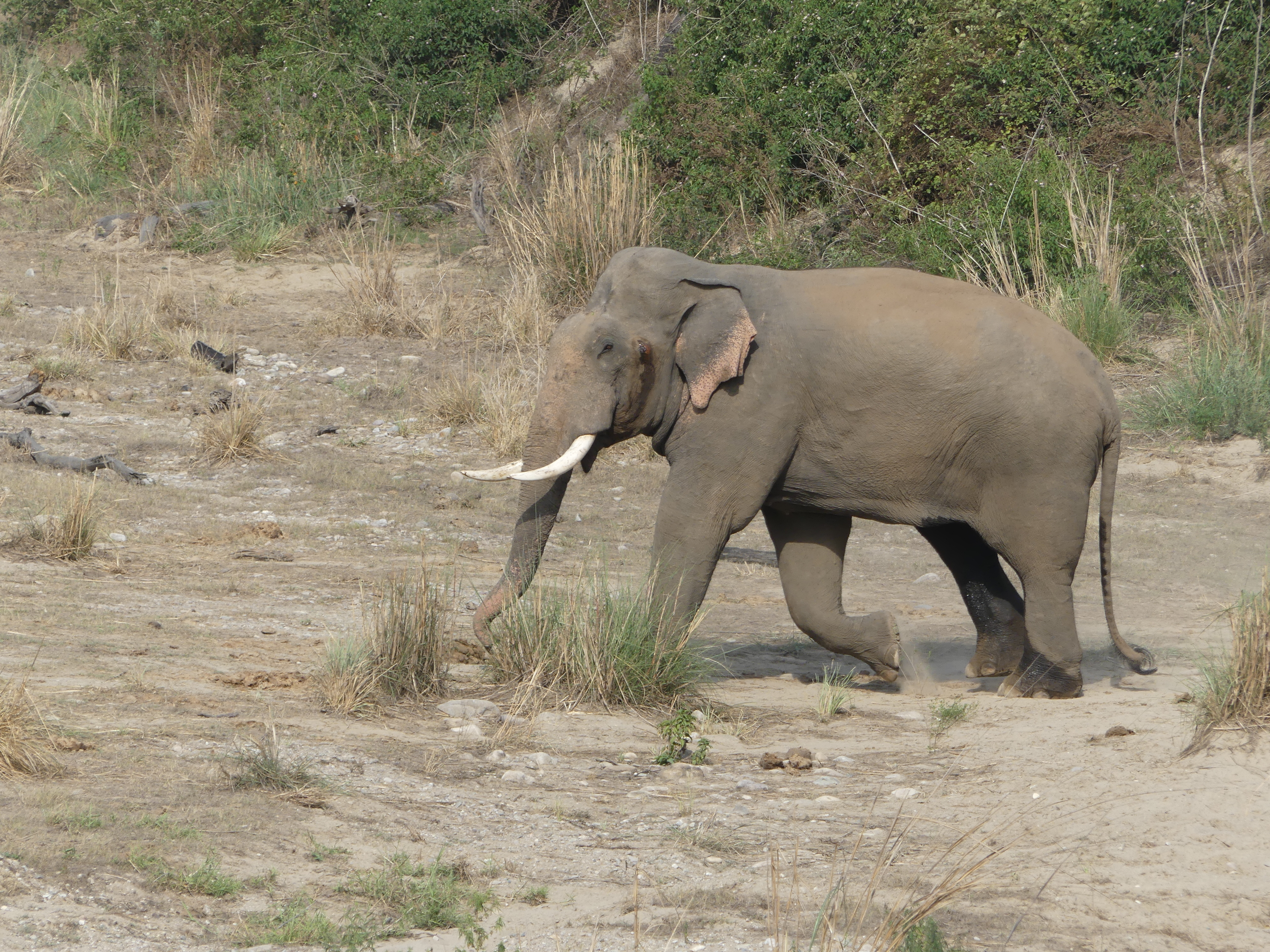 Bull Asian elephant tusker in musth in Corbett Tiger Reserve, India